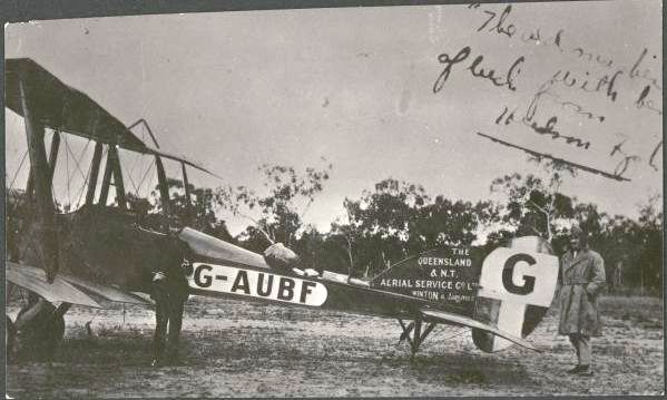 Photograph of Royal Aircraft Factory B.E.2e biplane